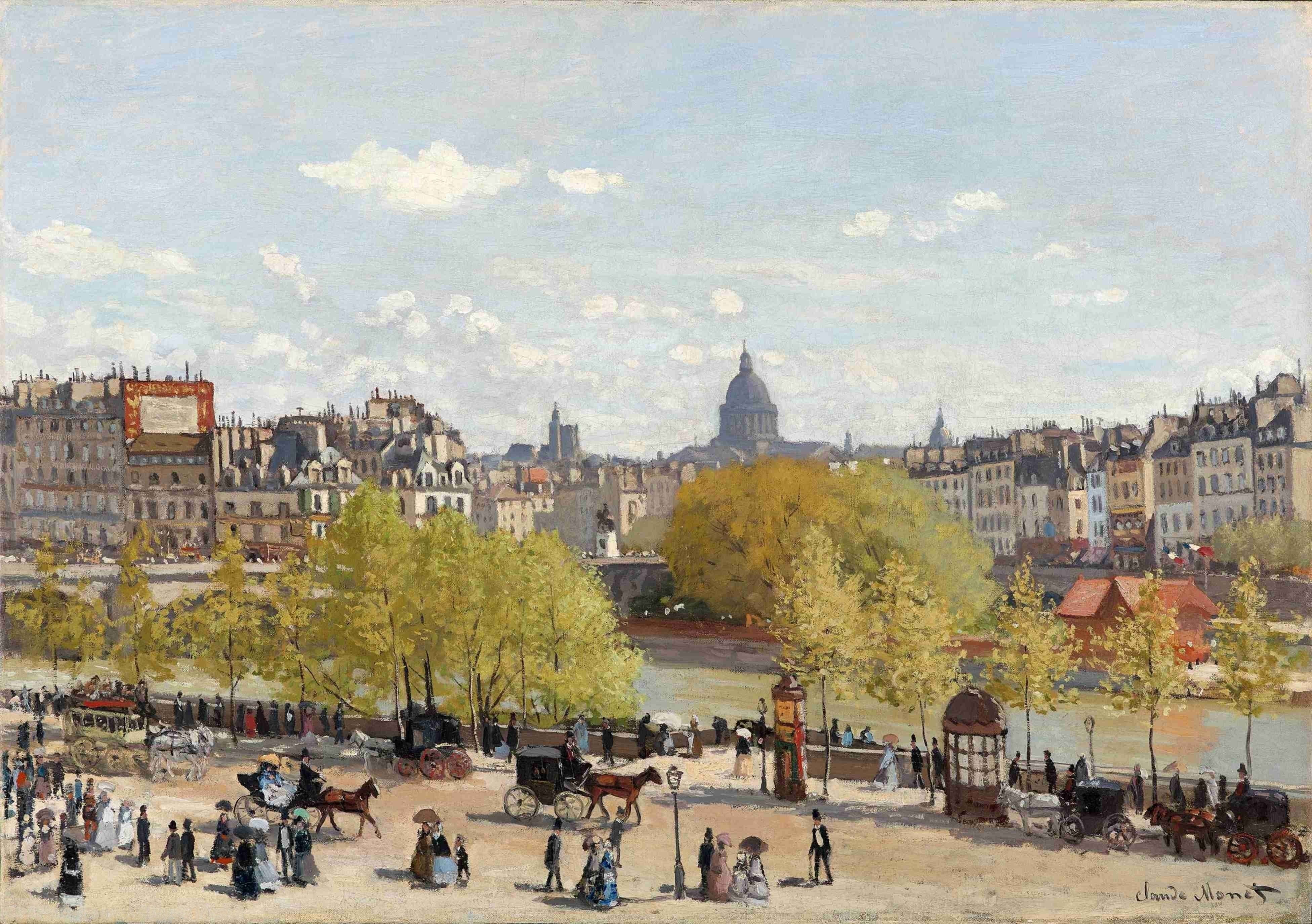 Quai du Louvre oil on canvas 65.1 x 92.6 cm signed b.r.: Claude Monet ca.1867